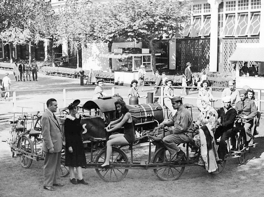 Photo of the Bicycle Ride at Steeplechase Park. Servicemen and their girls, as well as midway performers from the park take a last ride on the Bicycle Ride. It was the oldest ride in the park at the time and dated from 1897. The ride was sent for scrap to aid the war effort.